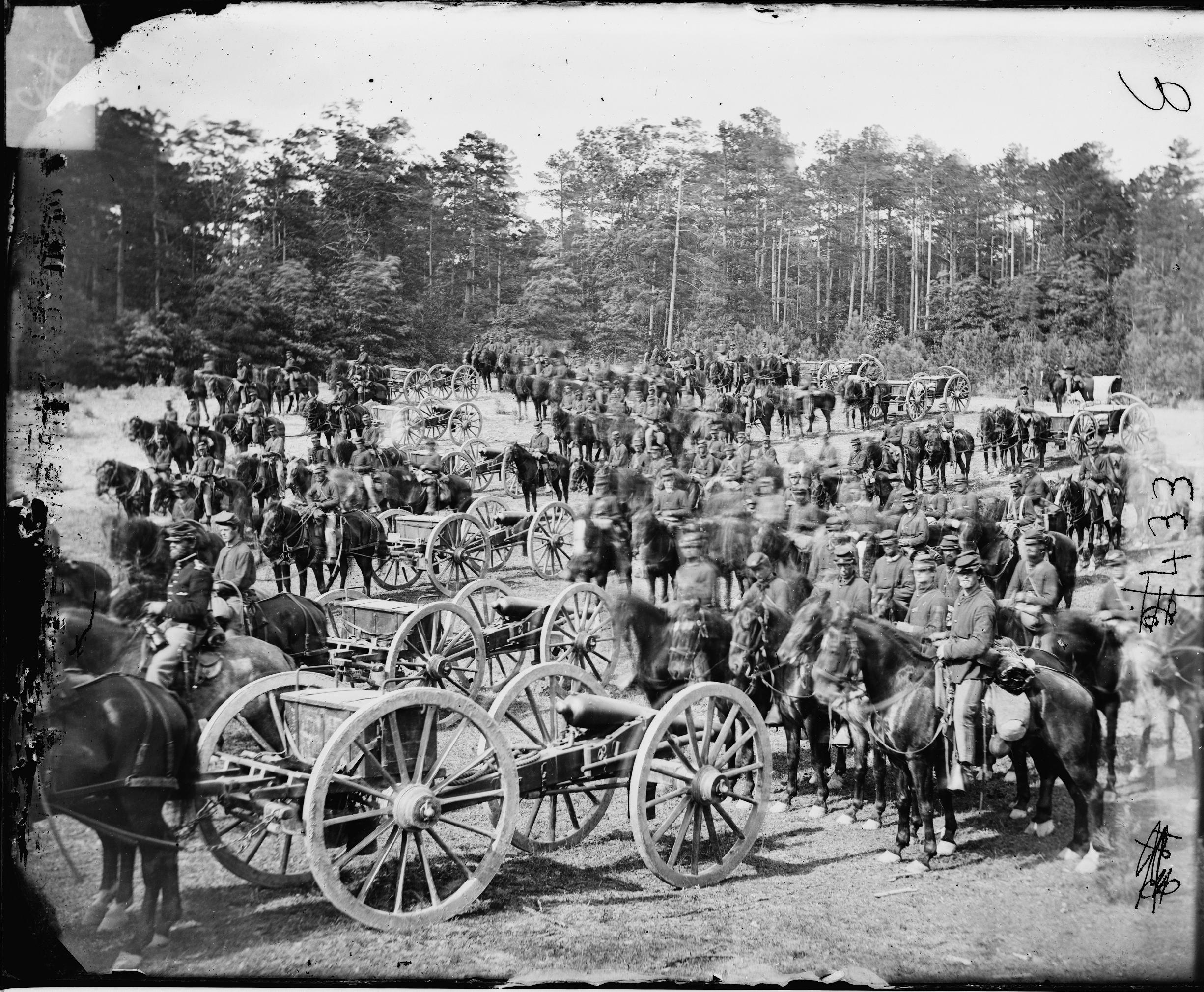 Battery M, 2nd U.S. Artillery in the field, 1862.